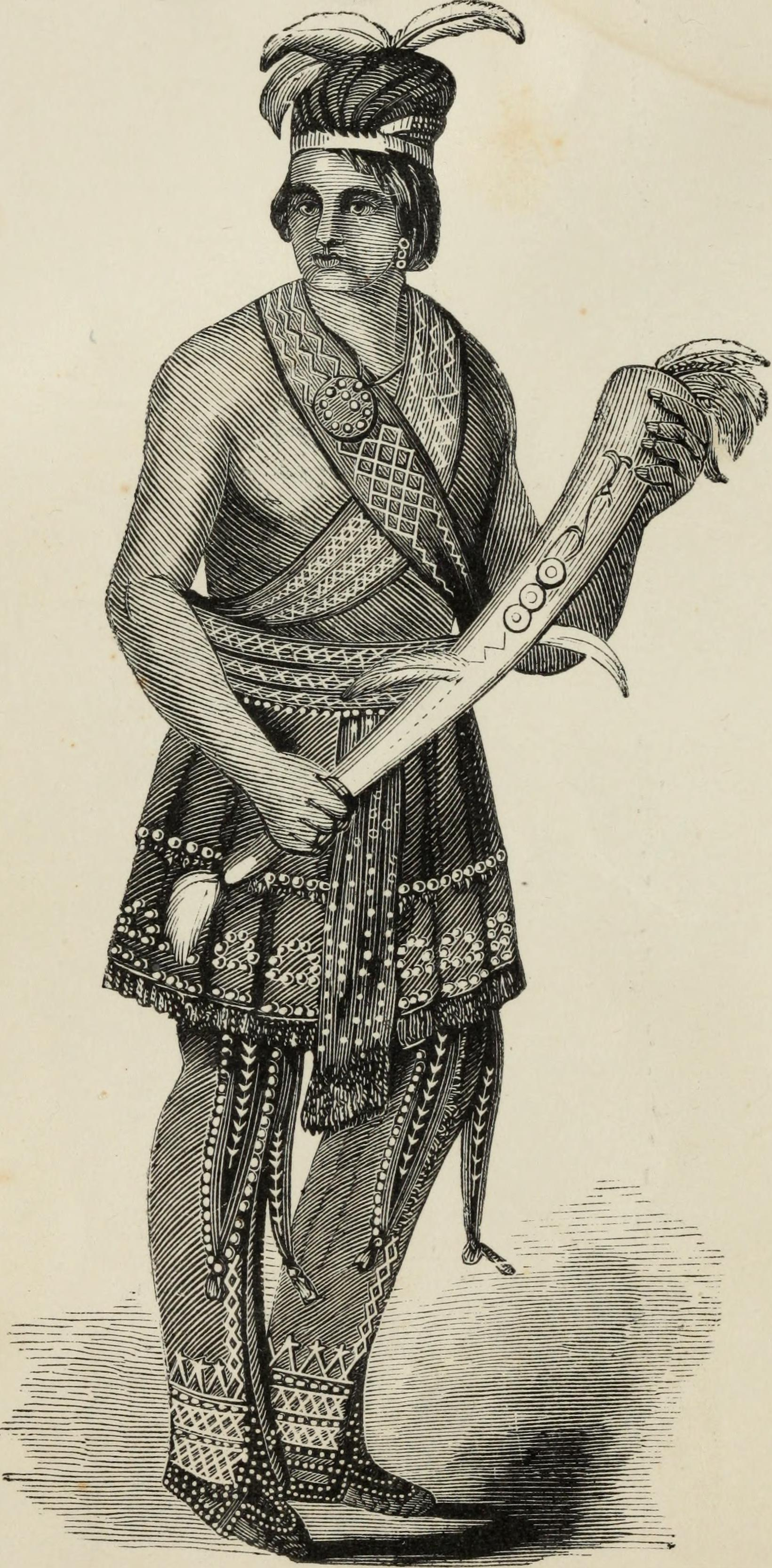 Title: The Iroquois : or, the bright side of Indian character Year: 1855 (1850s) Authors: Johnson, Anna C. (Anna Cummings), 1818-1892 Subjects: Iroquois Indians Publisher: New York : D. Appleton and Co. Text Appearing Before Image: ' Text Appearing After Image: A SENECA INDIAN IN COSTUME. a^n 1 no, V THE IROQUOIS; OR, %\t Sri(5^t Sih of ;itMait C;arai:t^i\ BY MINNIE MYETLE, NEW YOEK:1). APPLETON AND COMPANY, 346 AND 848 BEOADWAT. 1855. Entered according to Act of Congress, in the year 1855, by D. APPLETON & COMPANY, In the Clerks Office of the District Court for the Southern District of New York- THE LIBRARY 1 BRIGHAM YOUNG UNIVERSITY:PROVO. UTAH TO COL. THOMAS McKEINEY, AND PHILLIP E. THOMAS. Without their knowledge^ I presume to dedicatemy first volume of Indian History to those whosenames I have heard most frequently, as friends ofthe red man. The title of the first indicates thathe has been on the war-path, while the other belongsto the Society whose members are so eminently themissionaries of peace. The one v/as for many yearsconspicuous as a public man, and the other has beenseen only in the most private walks, but they havebeen ever intimately associated in efforts for pro-moting the best interests of Indians of every nameand raceiroquoisorbright00john